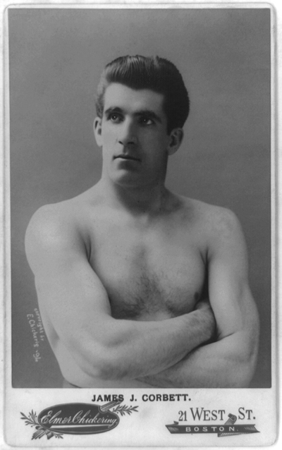 James Corbett — boxer.